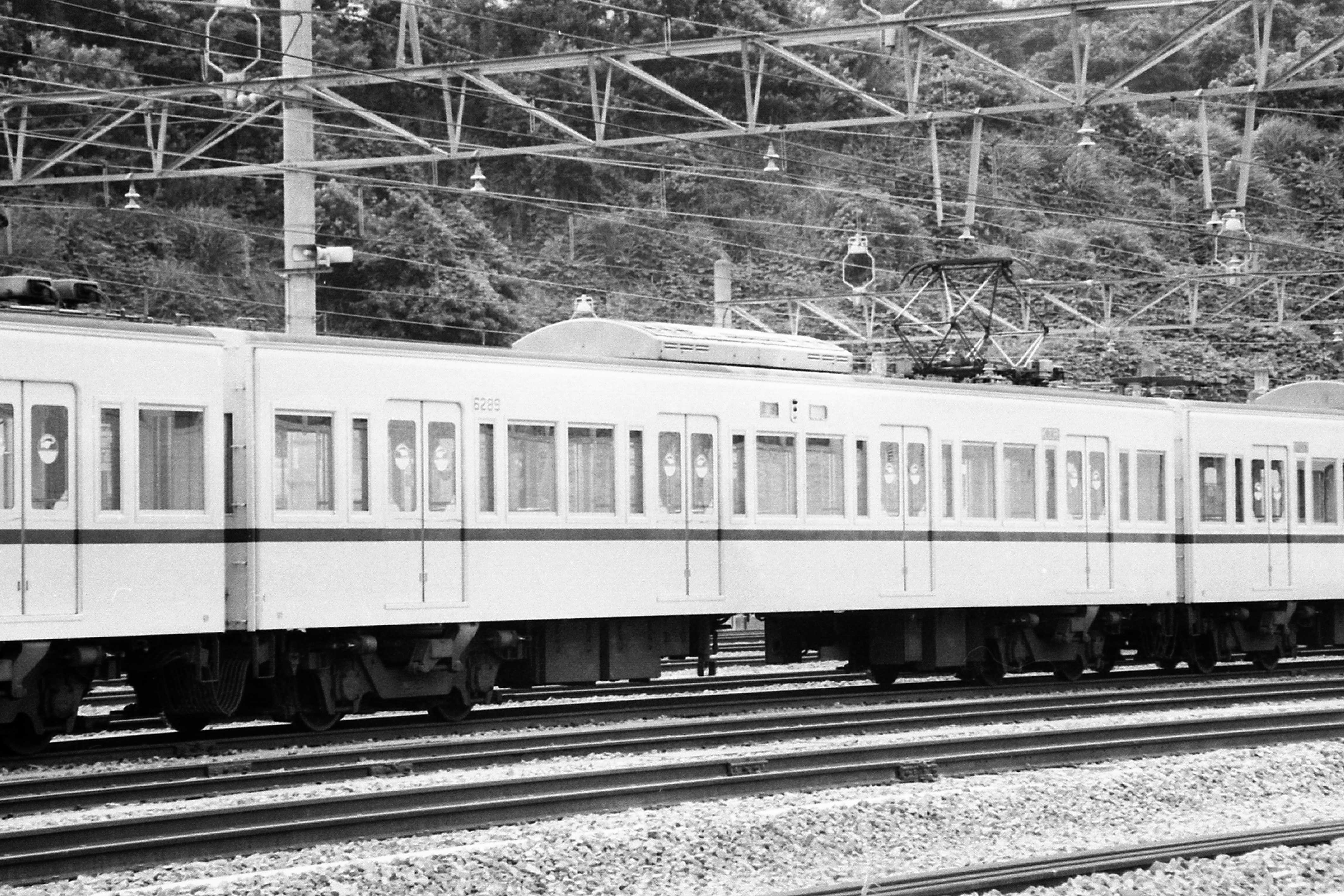 Keio 6289 at Wakabadai